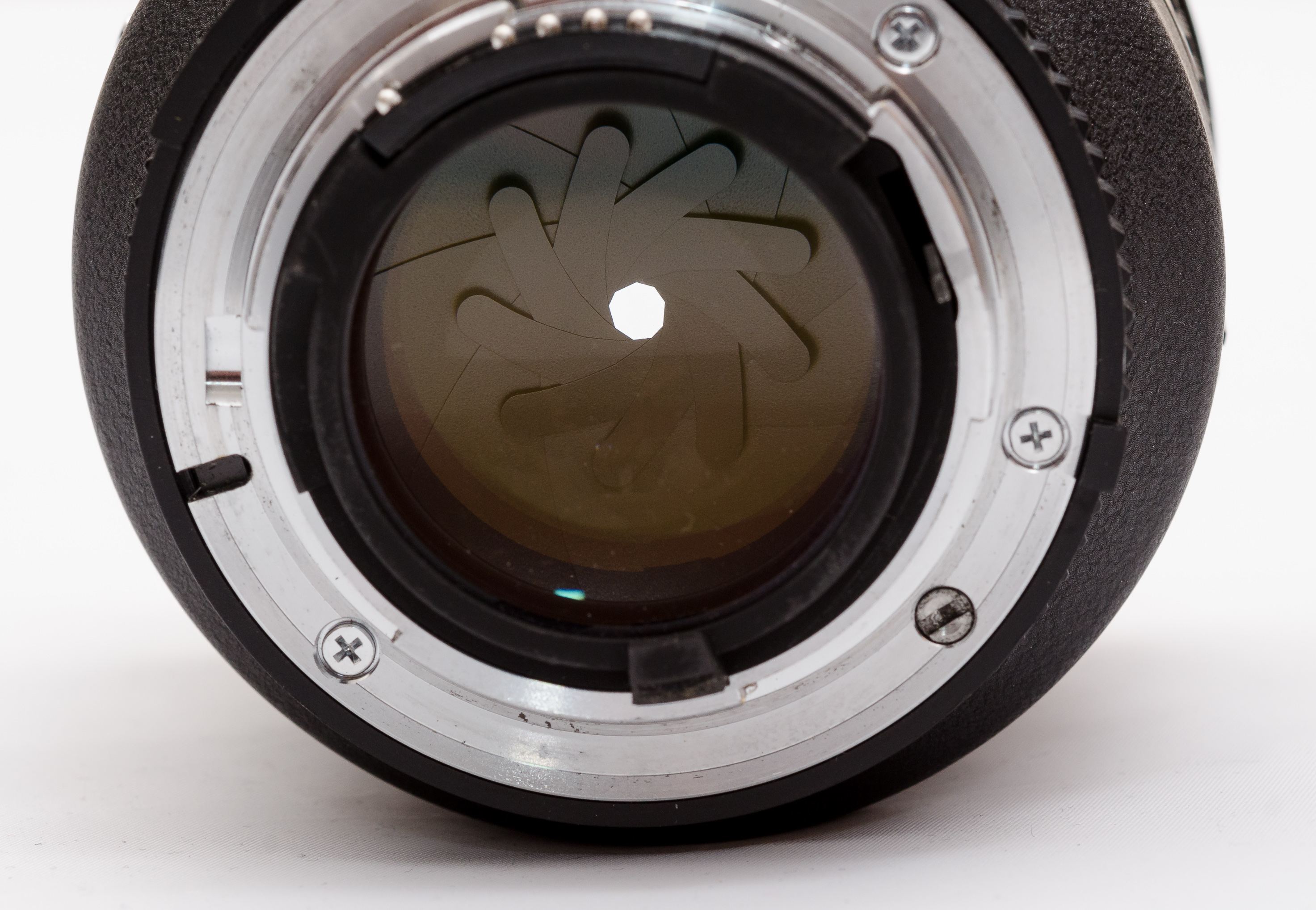 9 rounded diaphragm-blades of AF-D Nikkor 85mm f/1.4